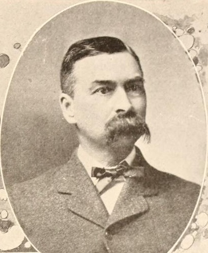 Portrait of New York state senator Spencer G. Prime